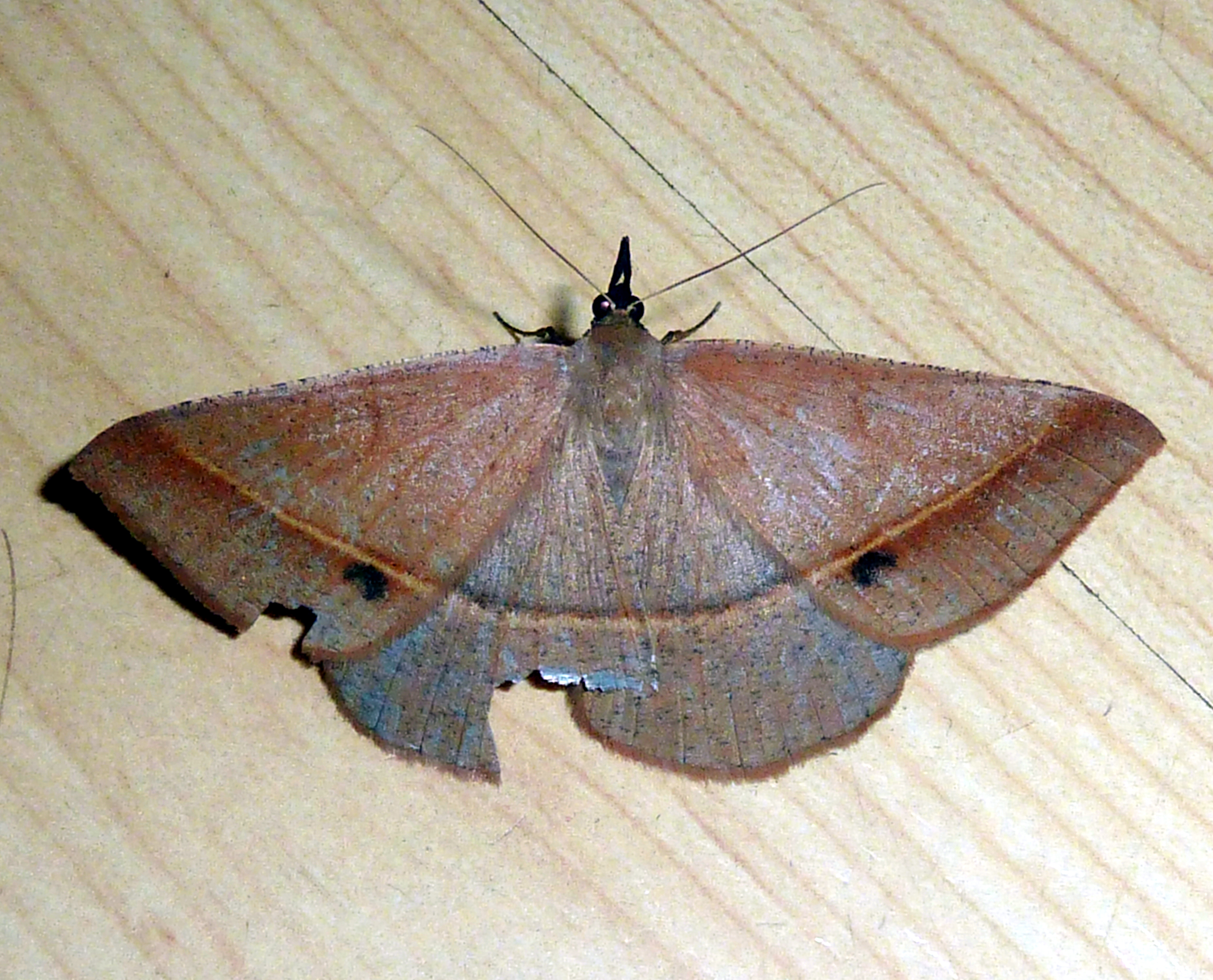 Conolophia aemula in the Murrayfield suburb of Pretoria